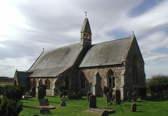 St Albans, Withernwick, East Riding of Yorkshire, England.